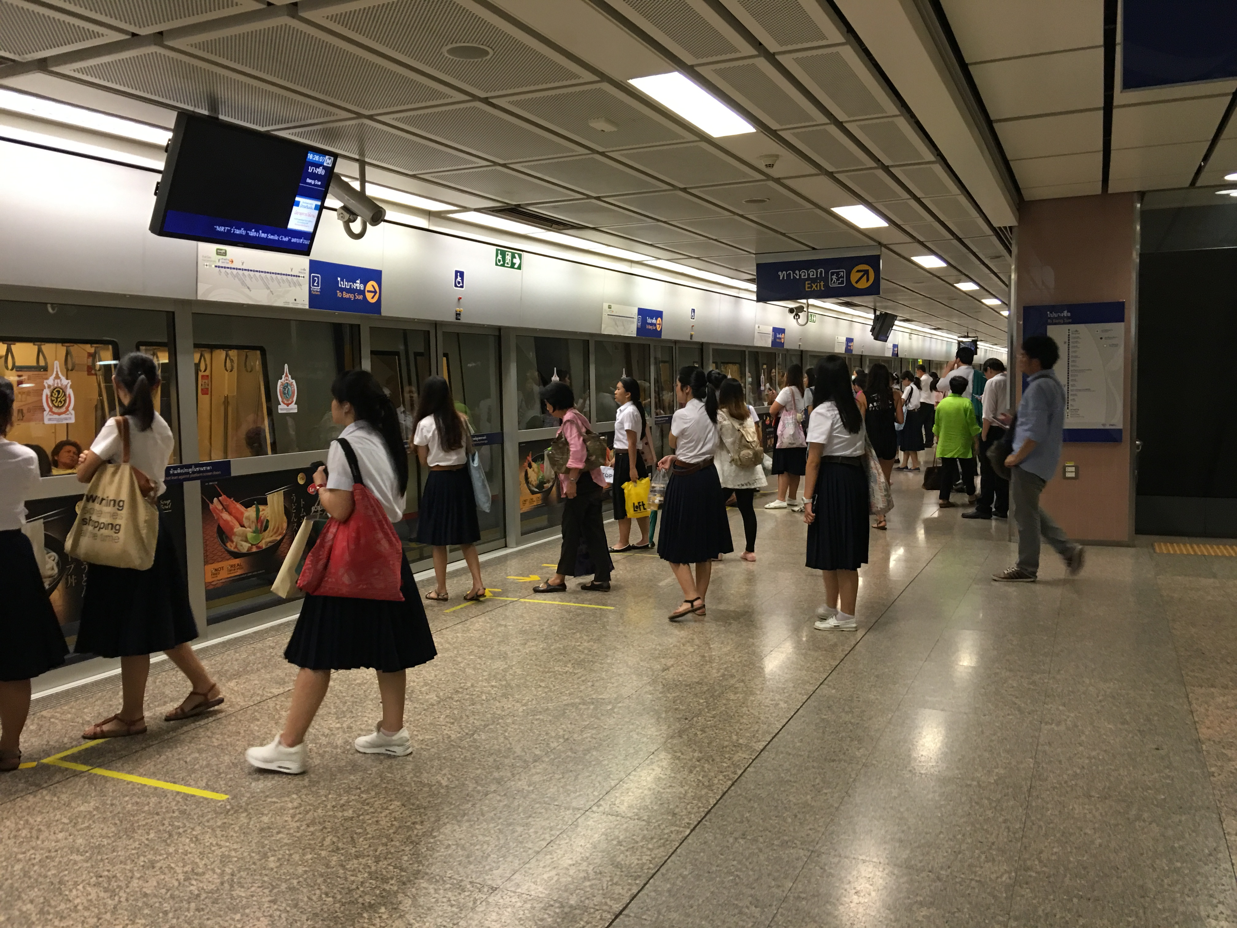 The platform 2 of Sam Yan Station